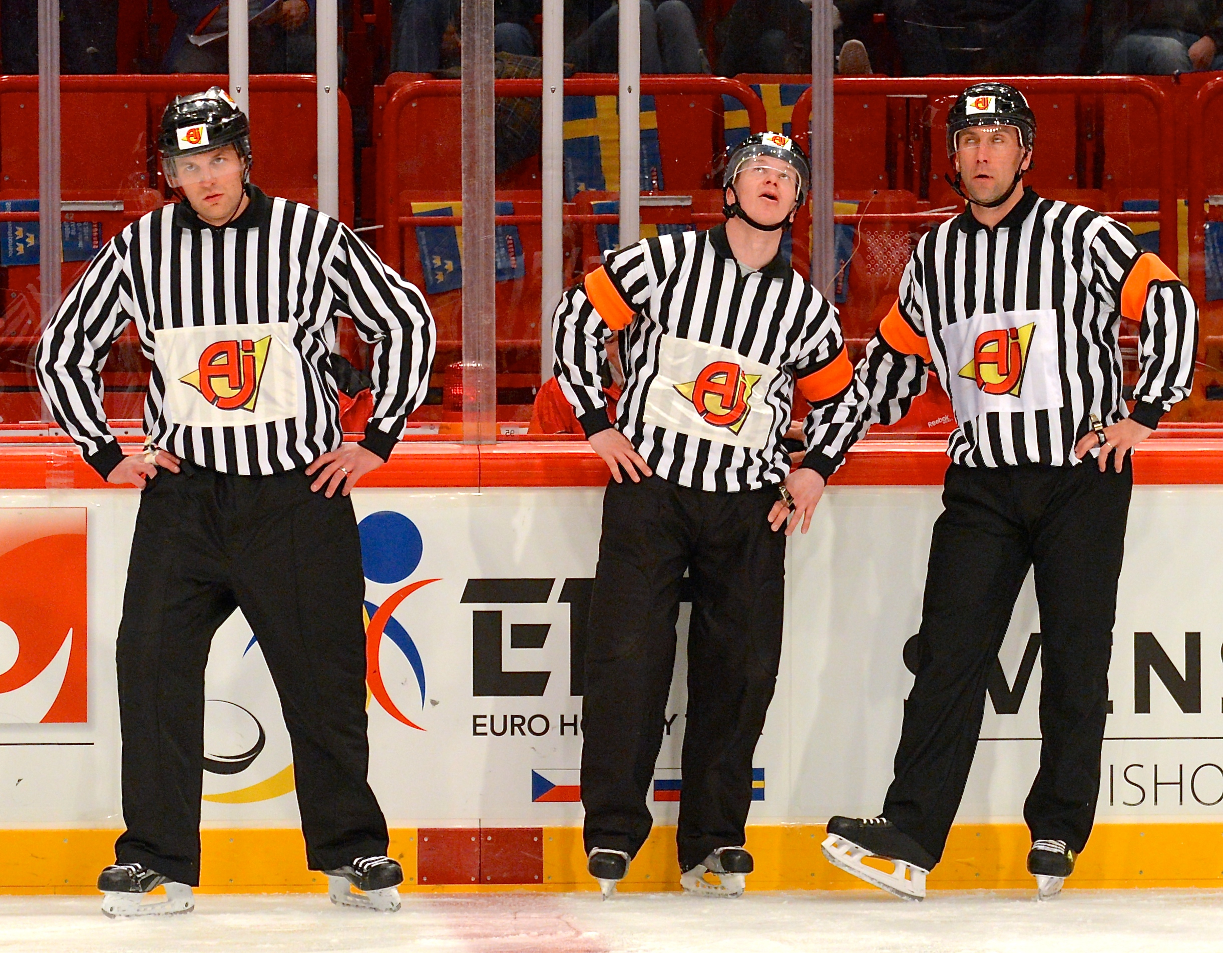 Official during Oddset Hockey Games against Russia (2-0) at the Ericsson Globe in Stockholm on May 4th, 2014.